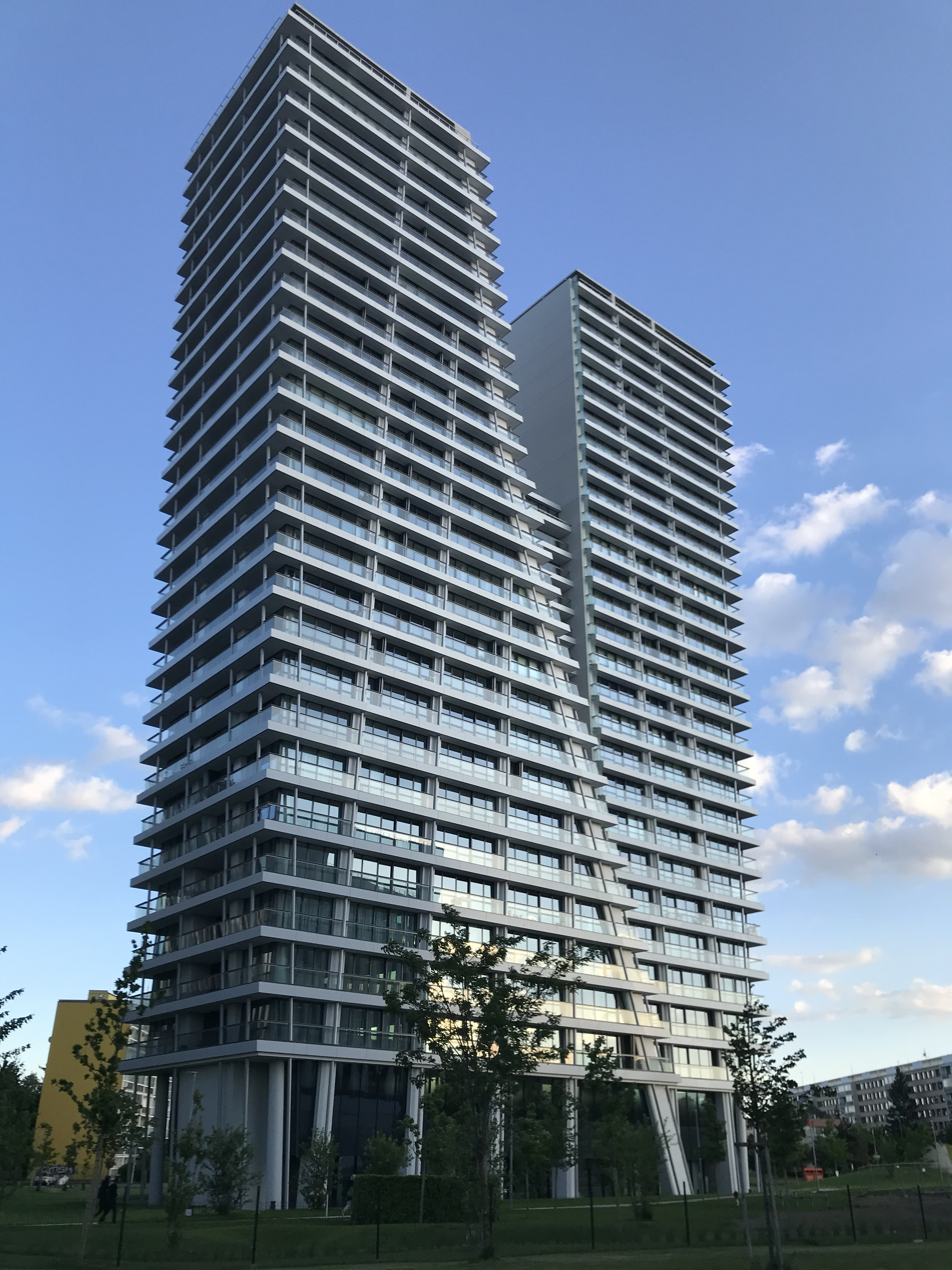 Skyscraper V Tower in Prague located in Pankrác district